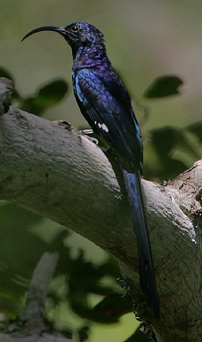 An attractive and fairly common woodland bird related to the Wood-Hoopoes.